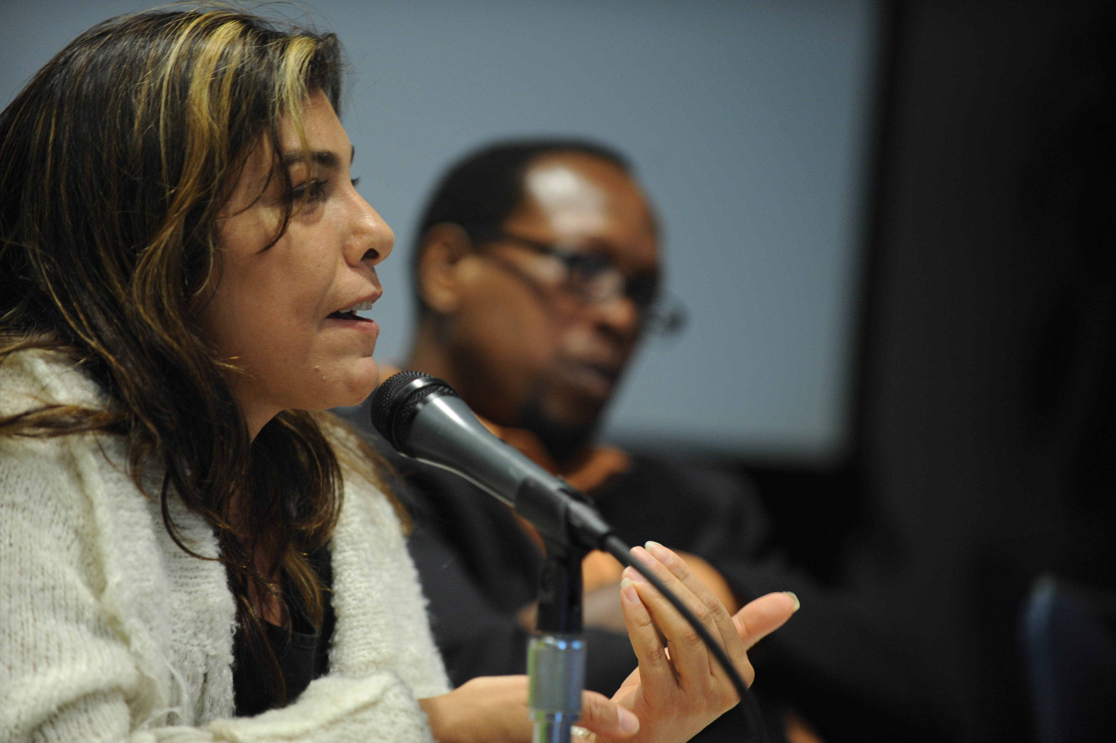 WWW 2010 - "The Future of Learning is the Web." From left to right: Laurent Dubois, Negar Mottahedeh, Mark Anthony Neal, Tony O'Driscoll, Cathy Davidson. Photo by Elon University Relations photographer Kim Walker. Creative Commons rights.